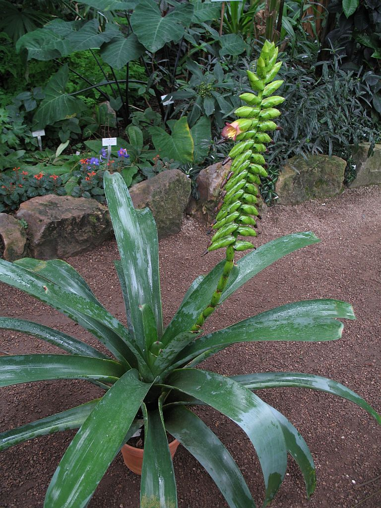 Vriesea oleosa in cultivation at the Botanical Garden of Heidelberg, Germany.